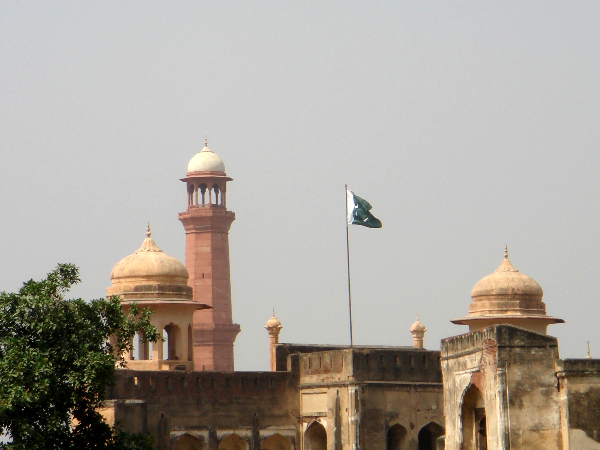 Picture by Kaiser Tufail, 25 Sep 2006